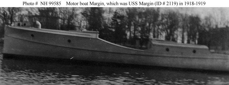 The private motorboat Margin prior to her service as the United States Navy patrol vessel , possibly at the time of her inspection for possible naval service by the 3rd Naval District on 6 December 1917.